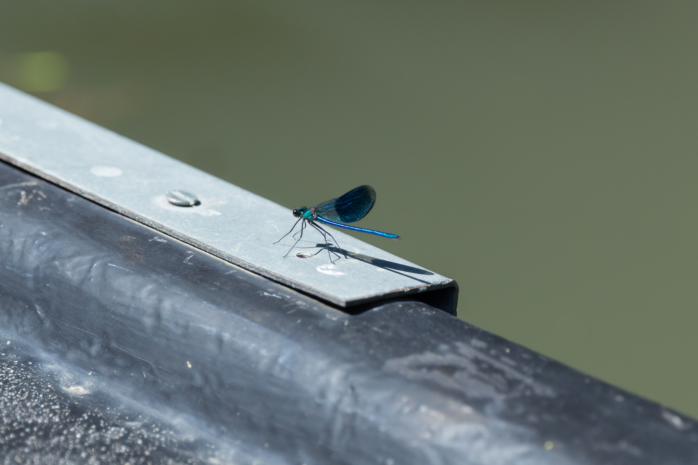 Calopteryx splendens (Banded Demoiselle) male in Sansais in the Poitevin Marsh, France.